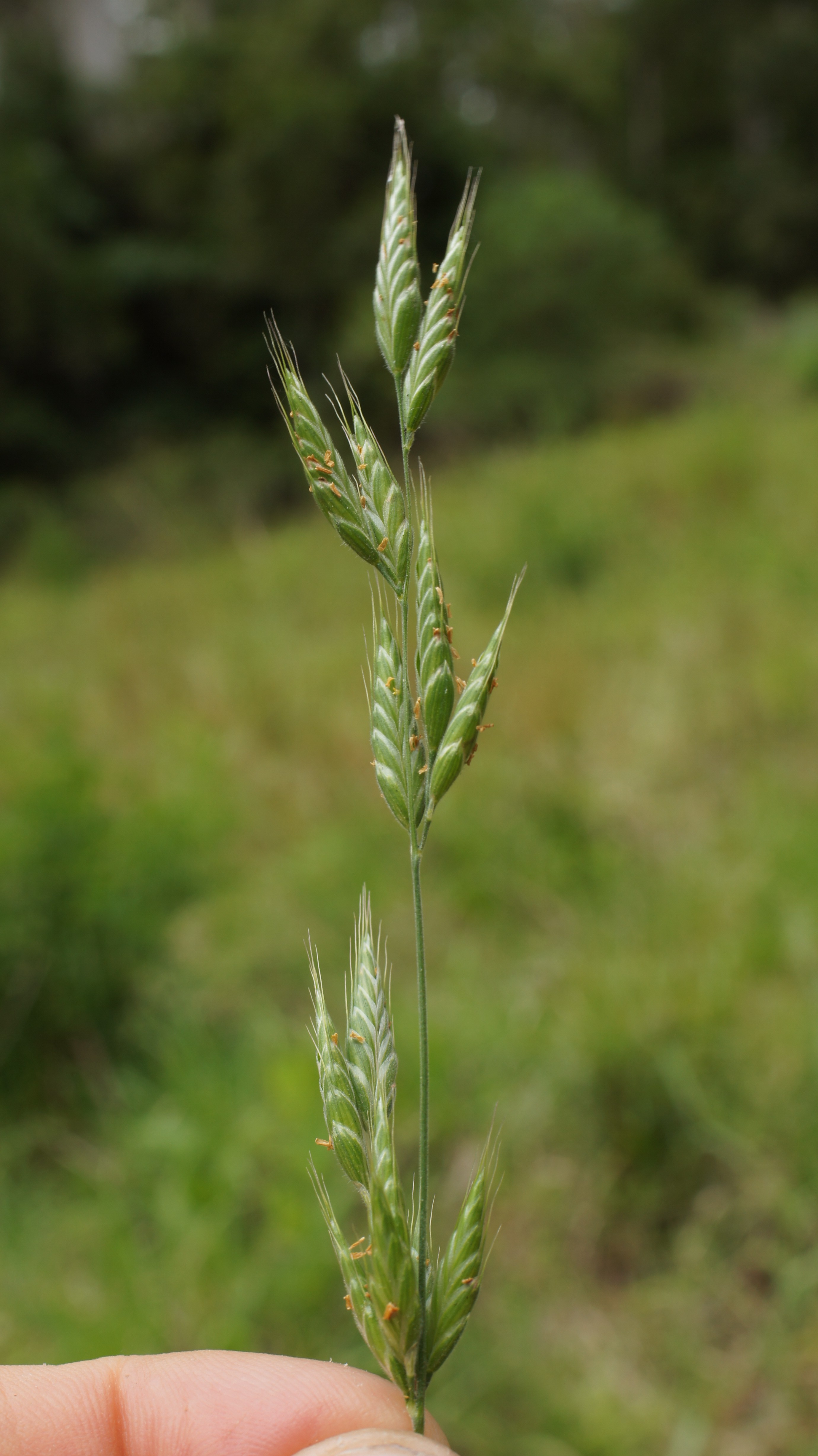 Flowerheads are erect, narrow contracted to somewhat open panicles.